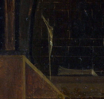 Antonello's Saint Jerome in his study detail